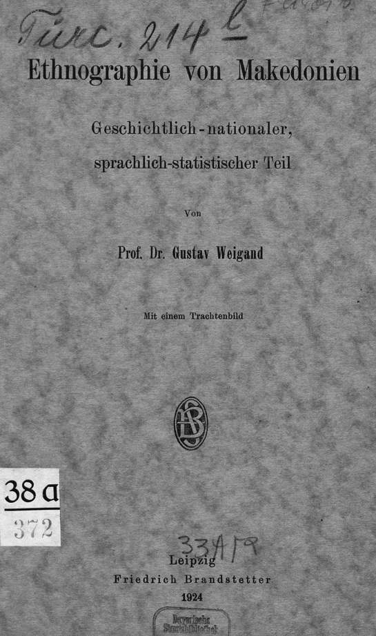 Title page of Gustav Weigand's book "Ethnographie von Makedonien"